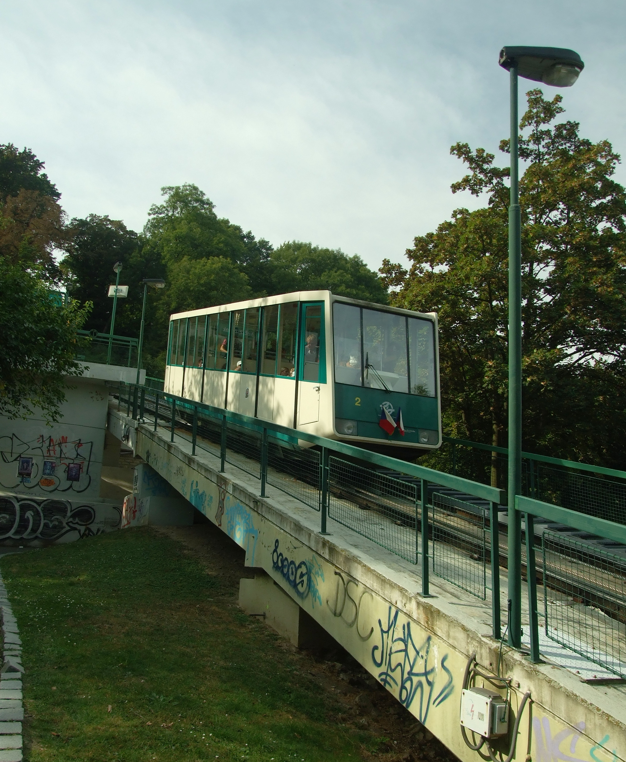 Petřín funicular - Nebozízek station in Prague, CZhelp